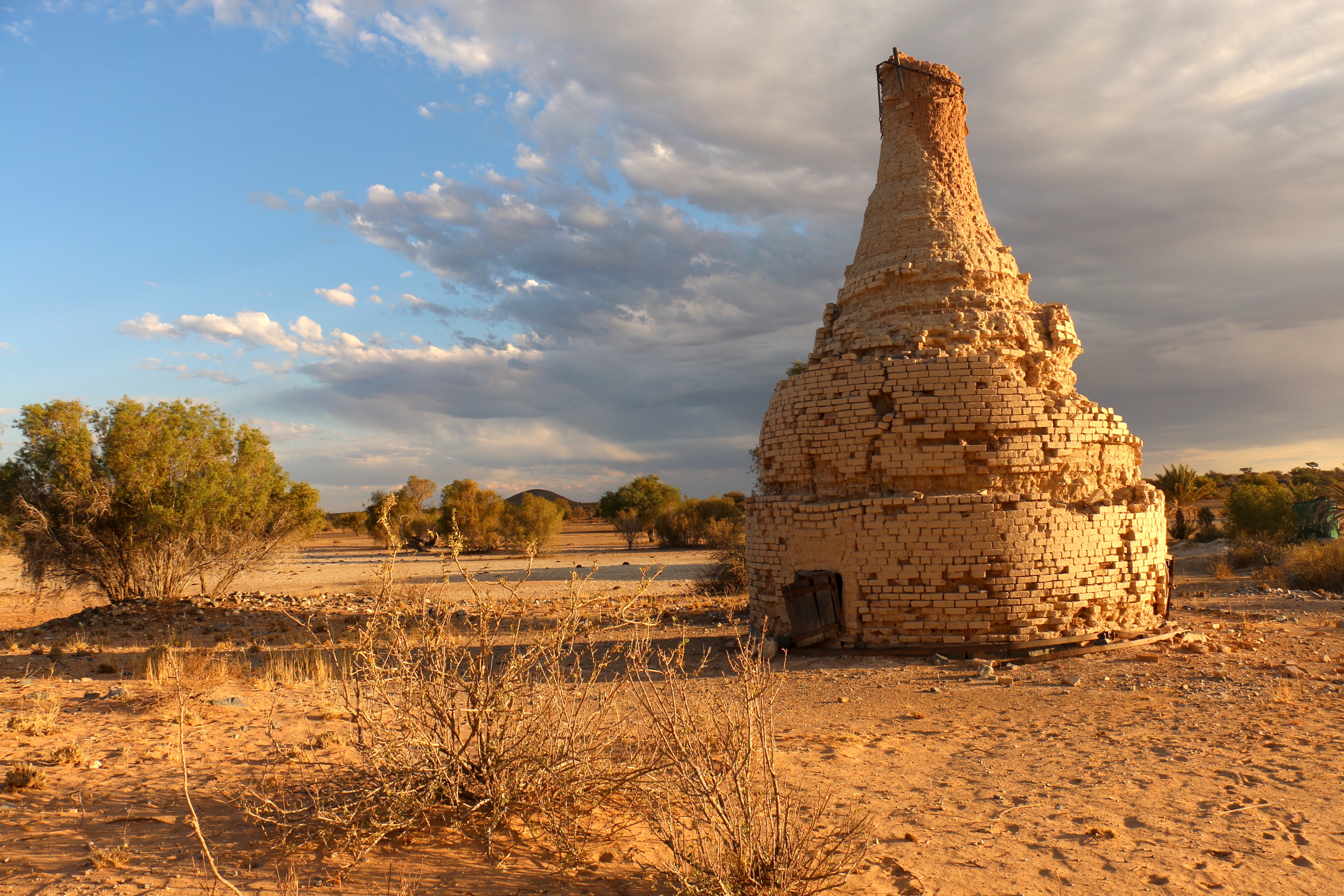 Old Lime kiln in Simplon Namibia (2017)